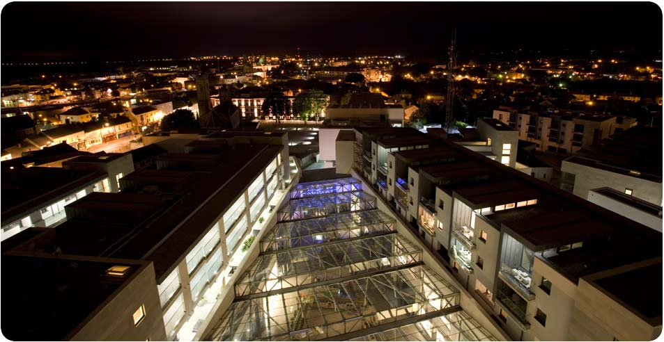 View From Town Centre Looking West at Night